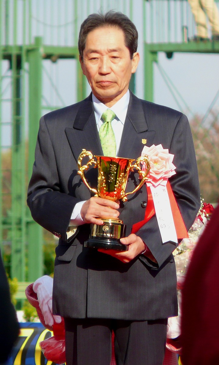 Kohei-Take20100417